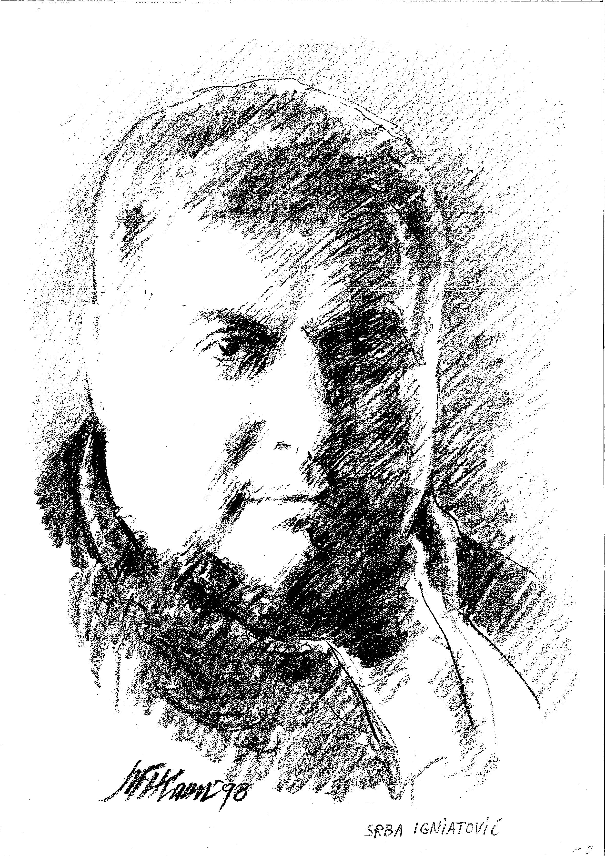 Srba Ignjatović, Serbian writer and critic, drawing of Momčilo Golubović. Српски (ћирилица): Срба Игњатовић, цртеж Момчила Голубовића.